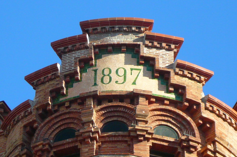 Central Catalana d'Electricitat (1897), Barcelona, by architect Pere Falqués.